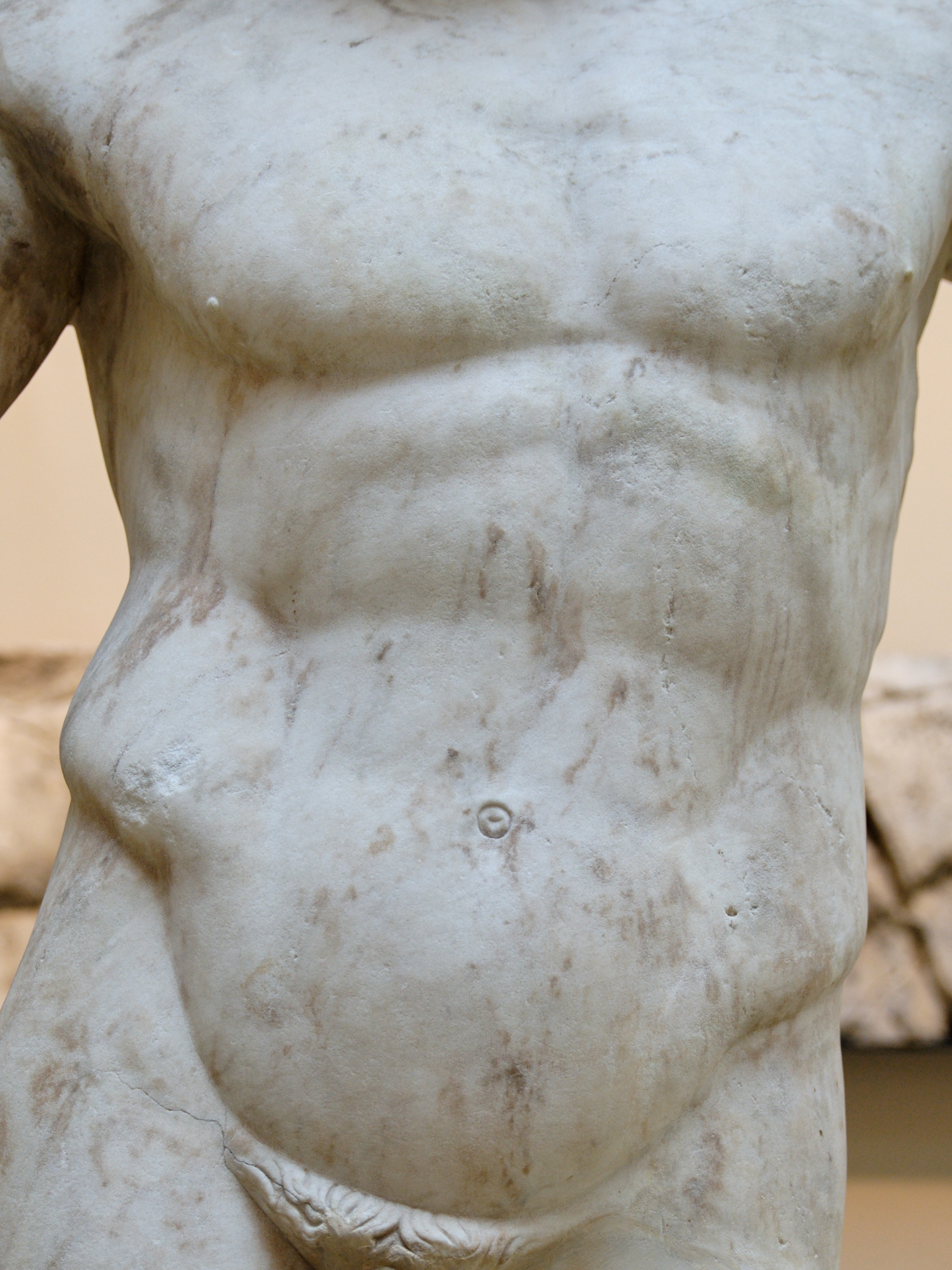 Diadumenos (athlete tying a ribbon band), detail of the torso. Marble, Roman copy of ca. 50 AD after a Greek original of ca. 440 BC. From the Roman theatre at Vaison-la-Romaine, France.